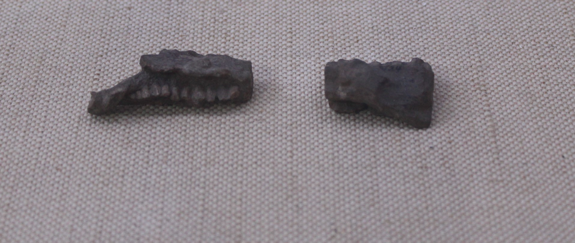 Holotype maxilla of "Anchisaurus" or "Gyposaurus" sinensis on display at the Paleozoological Museum of China.